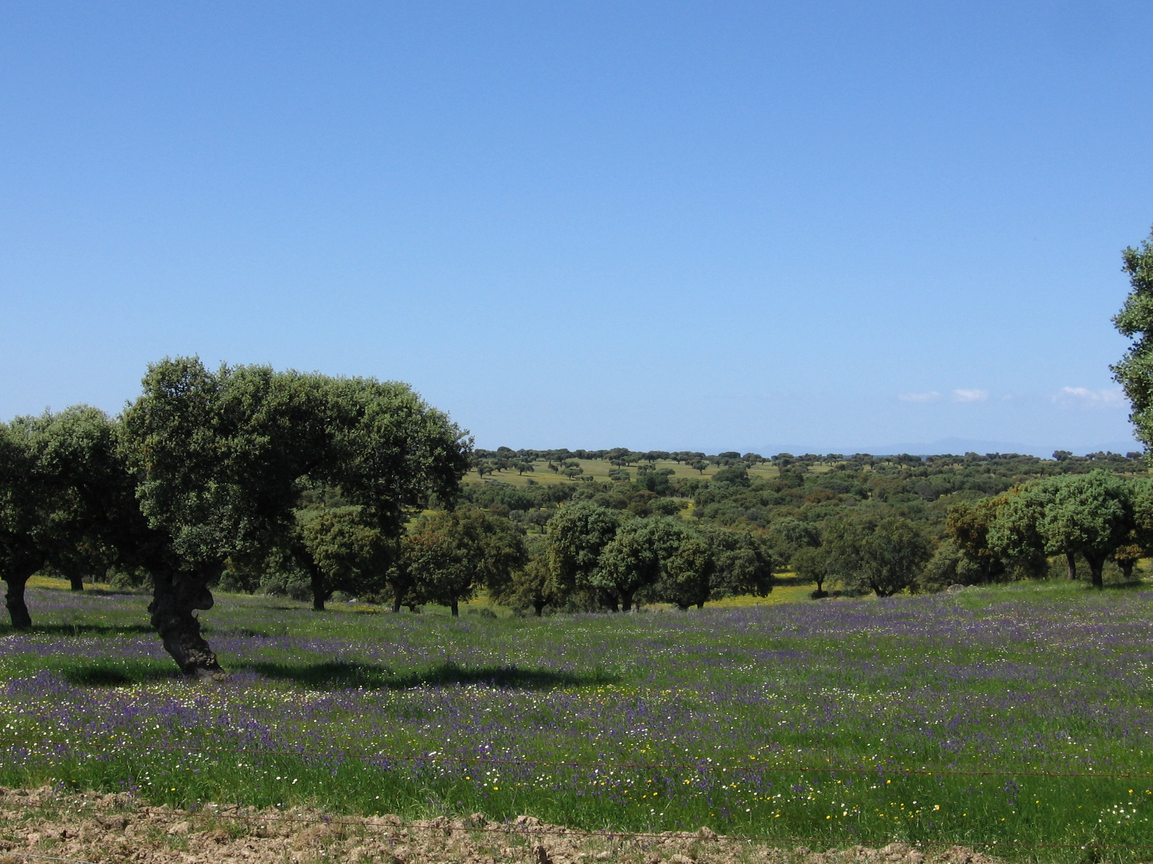 Dehesa in spring, Spain, Extremadura near Trujillo